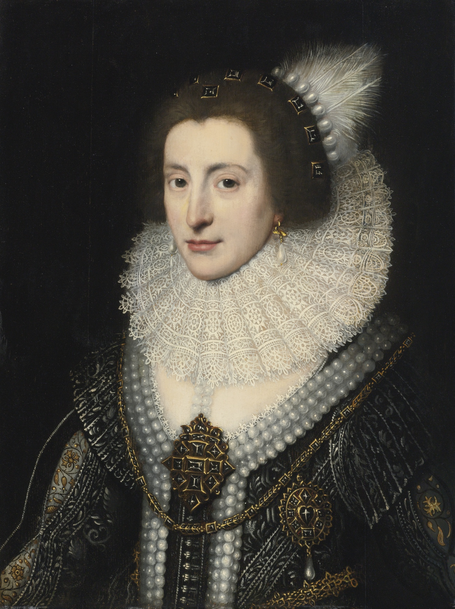 Elizabeth Stuart, Queen of Bohemia, the "Winter Queen"